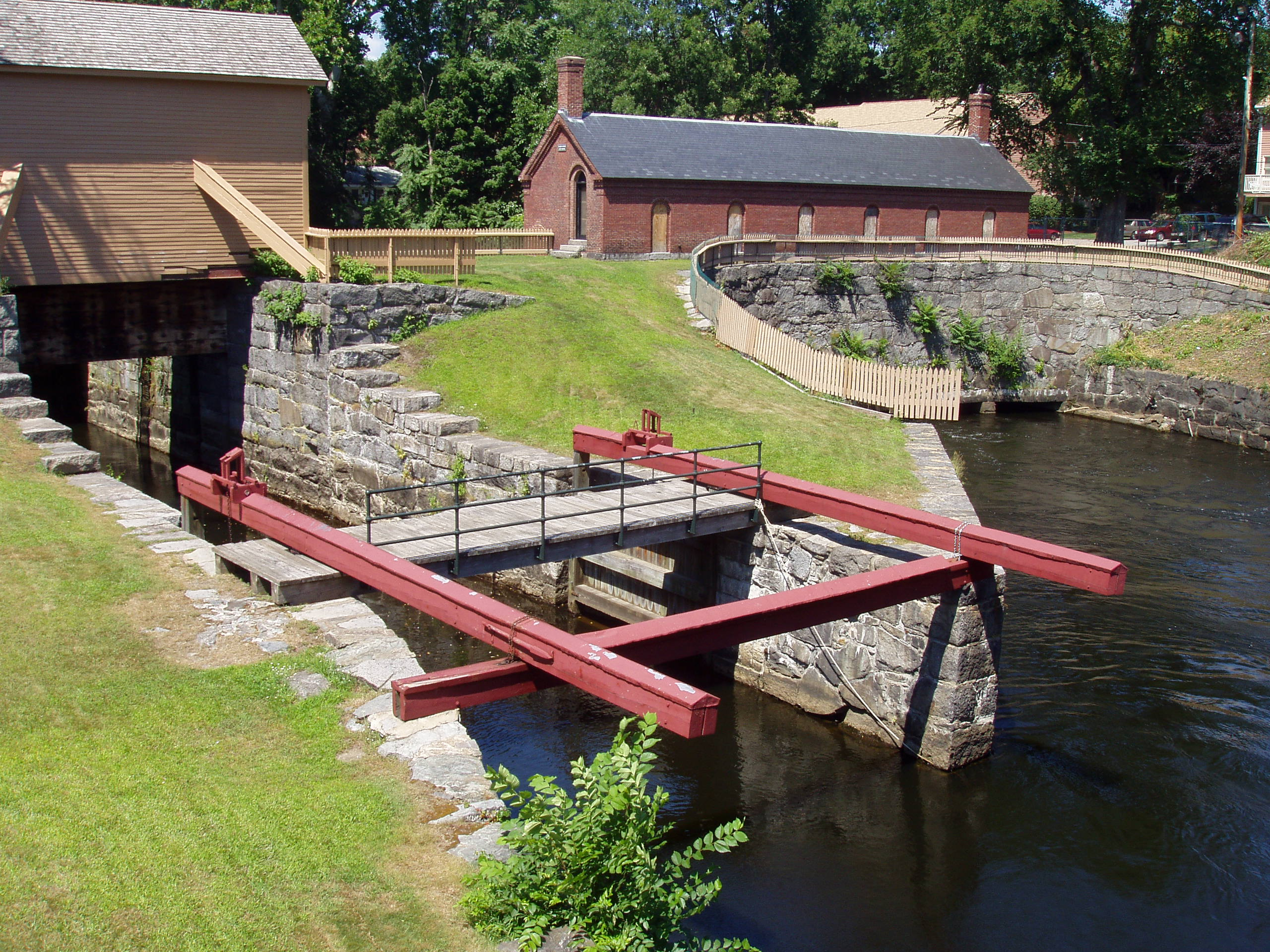 The Great Gate at the entrance of the Pawtucket Canal. Known as Francis' Folly, Francis Gate, or the Great Gate - Lowell, Massachusetts. Built by Chief Engineer James B. Francis in 1850, it protected Lowell from devastating floods in 1852, 1936, 2006, and 2007. The wooden gate suspended from the house was used in 1852 and 1936, whereas a more modern steel bulkhead of 16 inch by 16 inch beams was braced against the gatehouse in 2006 and 2007. Now part of the Lowell National Historical Park. Photograph taken by me, July 2005.